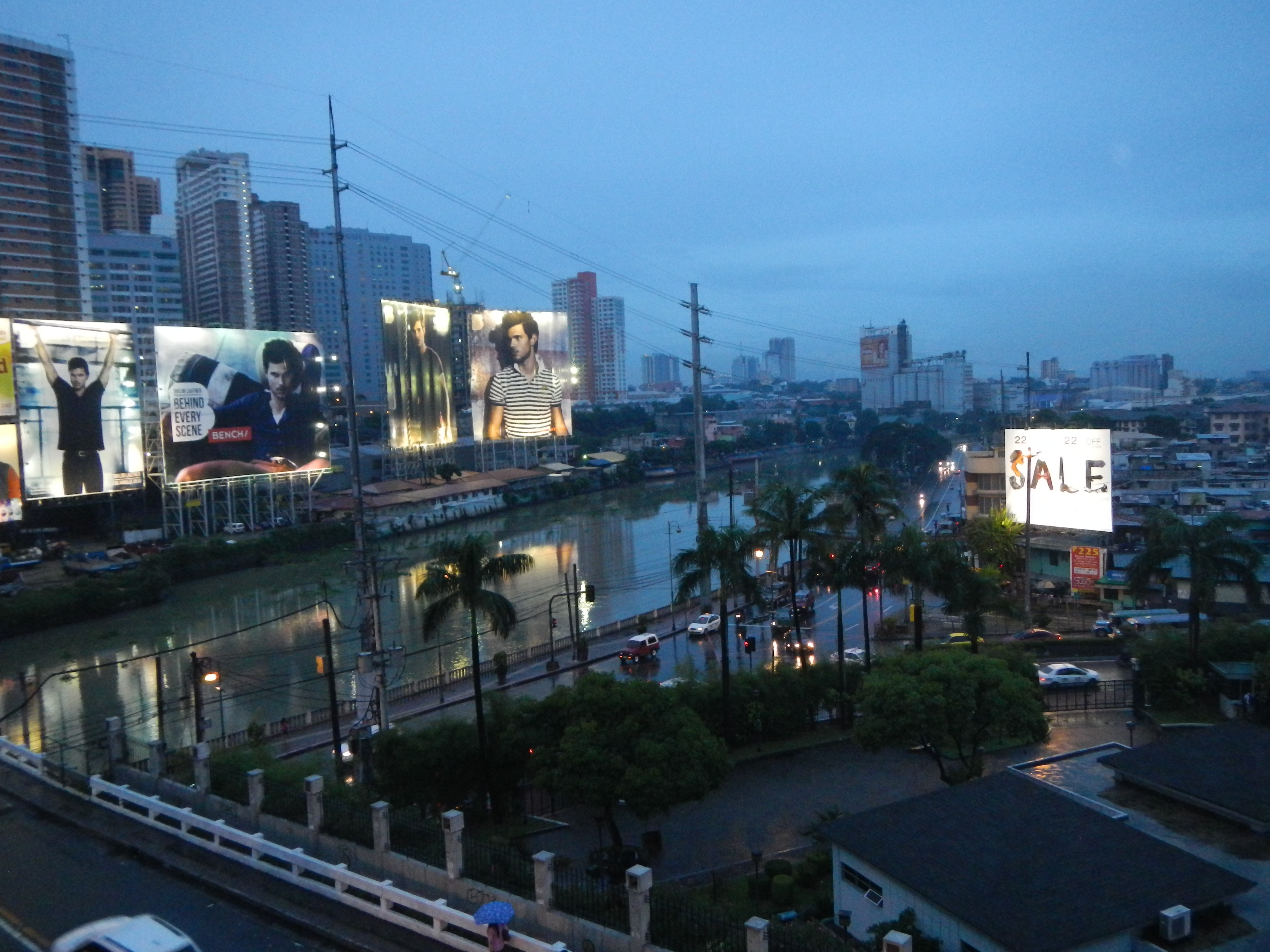 View of Pasig from MRT Guadalupe